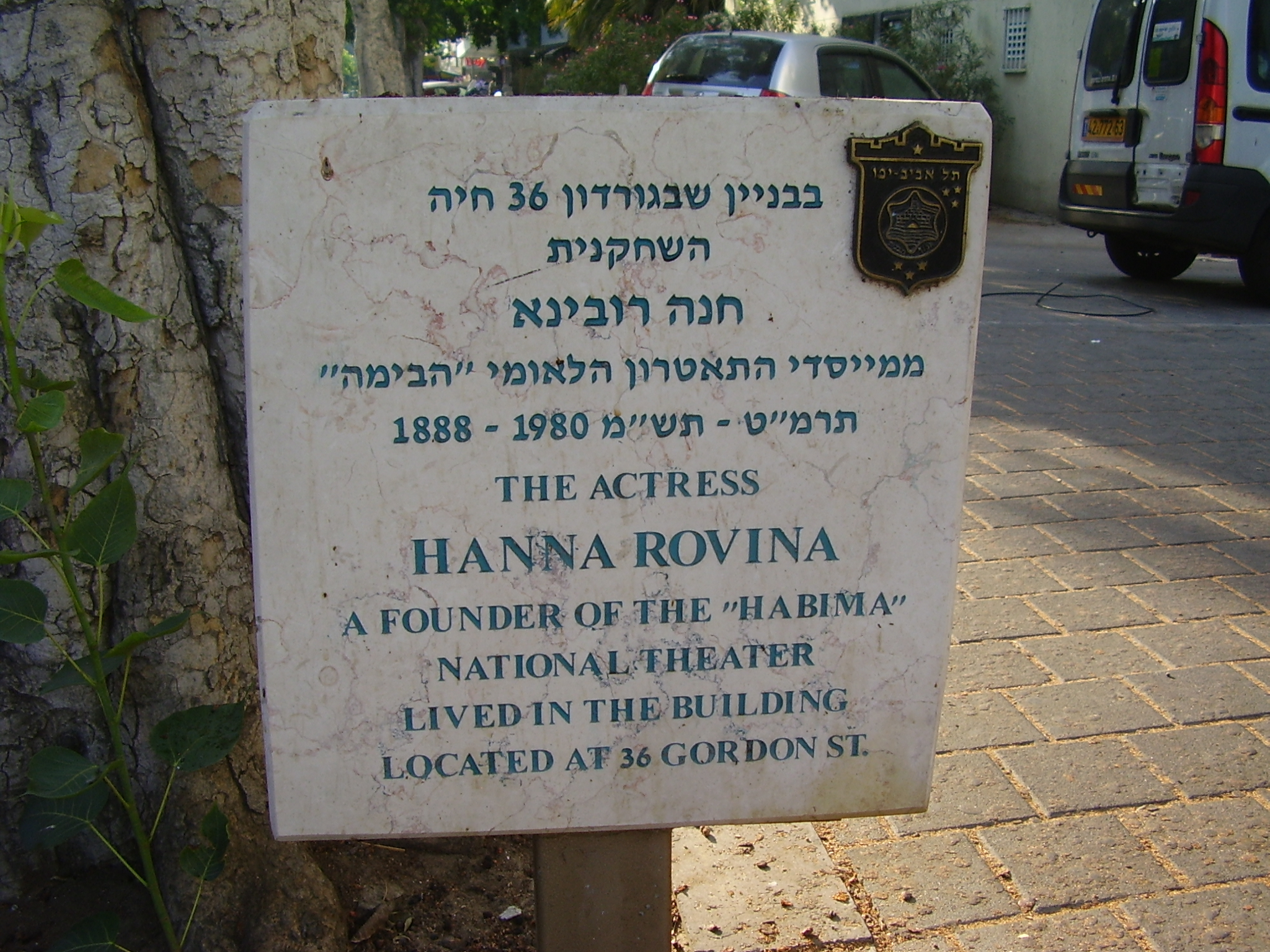 memorial plaque near the actress hana rovina house in tel aviv שלט זיכרון ליד ביתה של חנה רובינא בתל אביב